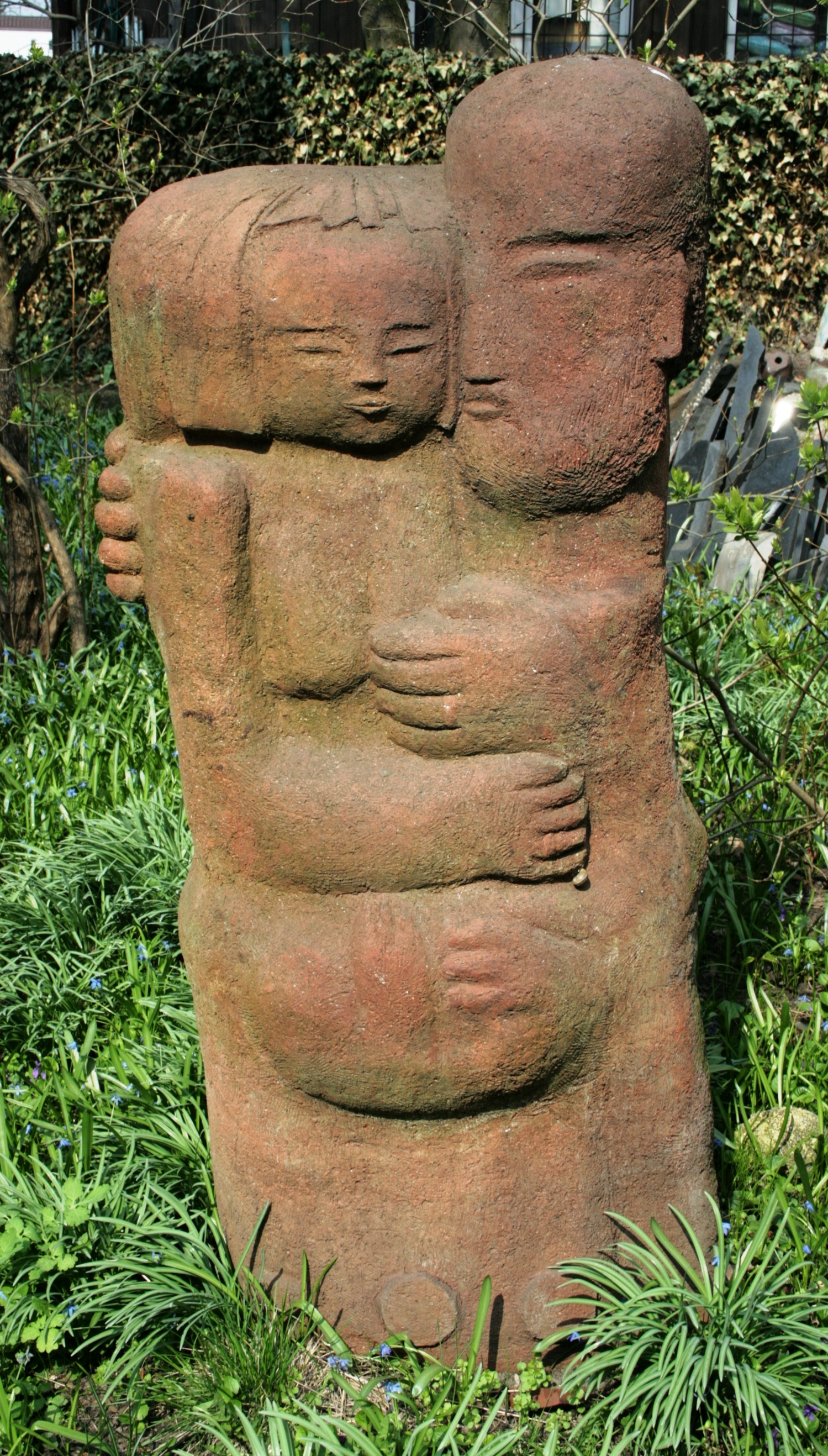 Katarzyna Piskorska - a couple